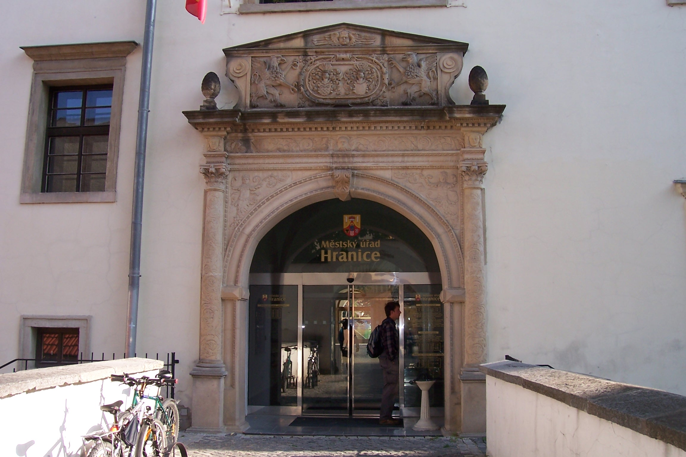 Hranice in Přerov District, Czech Republic. Portal of the castle.